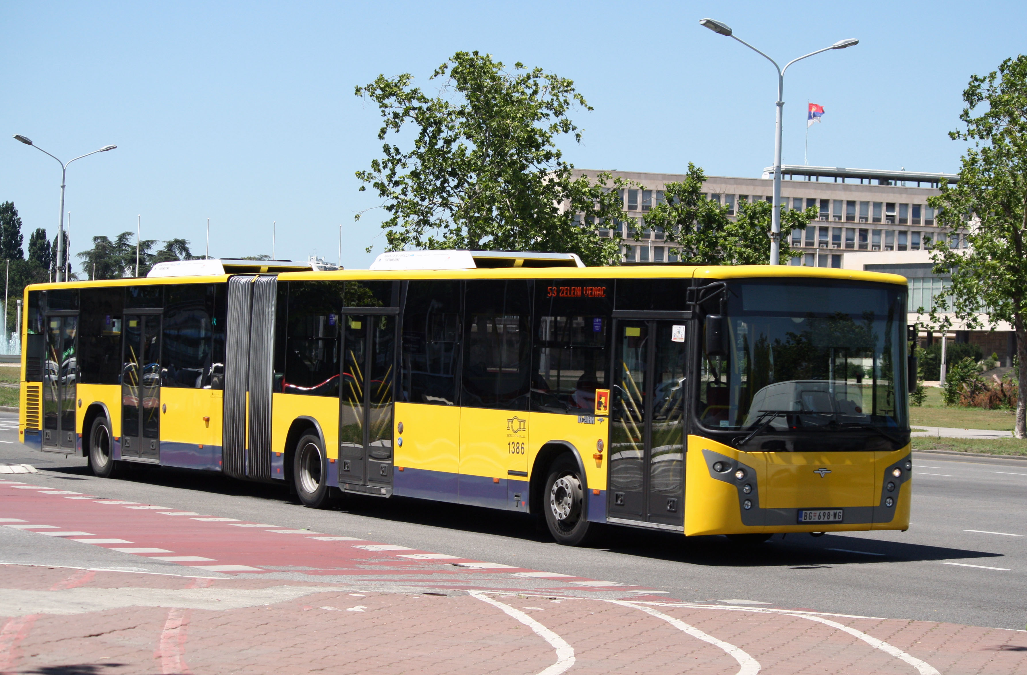 Ikarbus IK 218M city bus of GSP Beograd on line 53.